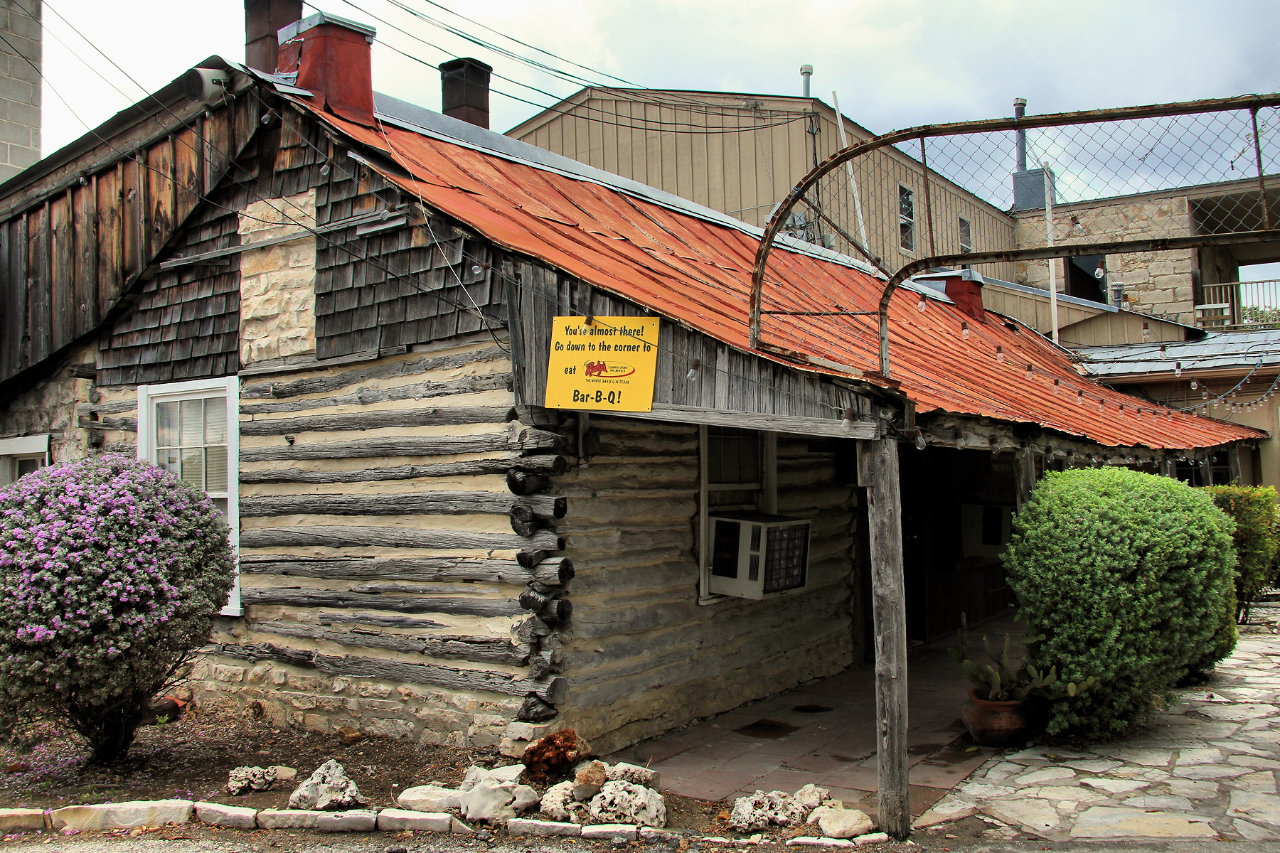 A double pen dogtrot form log cabin, built by Max Aue around 1855, part of the Aue Stagecoach Inn in Leon Springs, Texas, United States. The building was listed on the National Register of Historic Places on August 1, 1979.